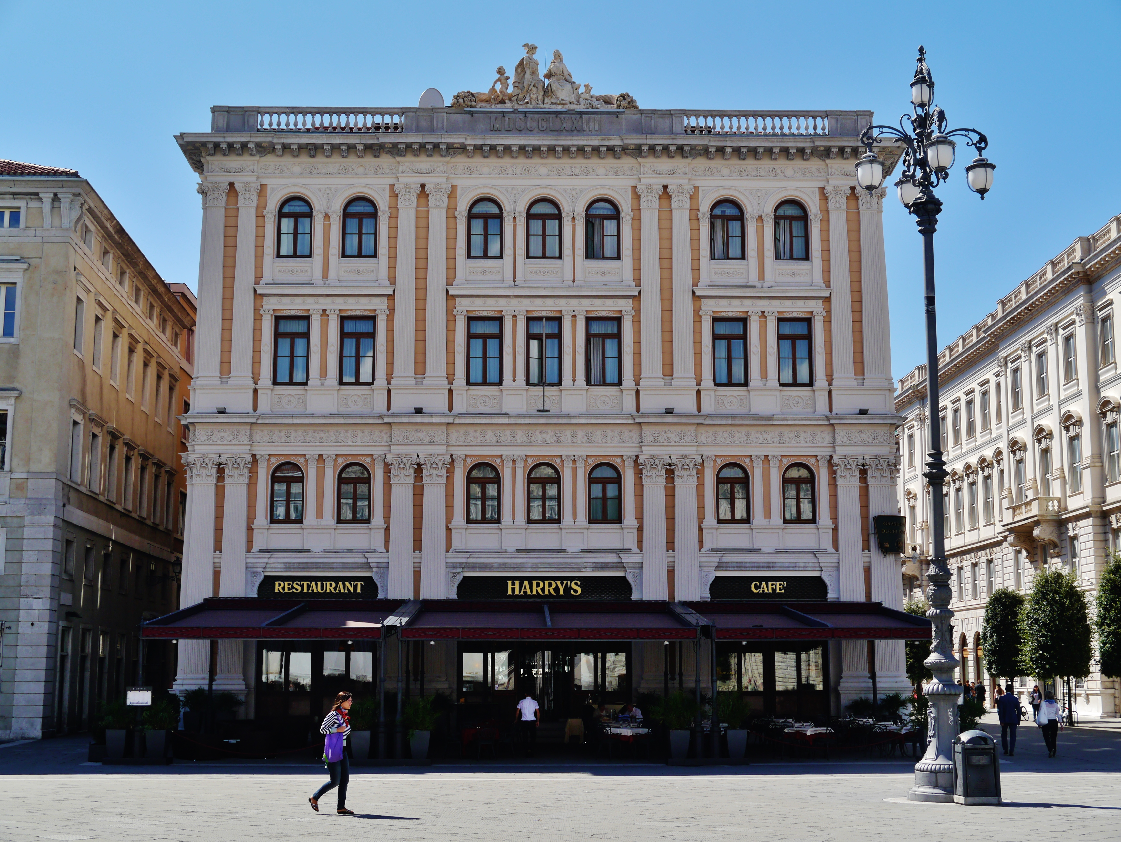 Vanoli Palace at Unity Sqaure (Piazza dell'Unità d'Italia), Trieste, Friuli-Venezia Giulia, Italy